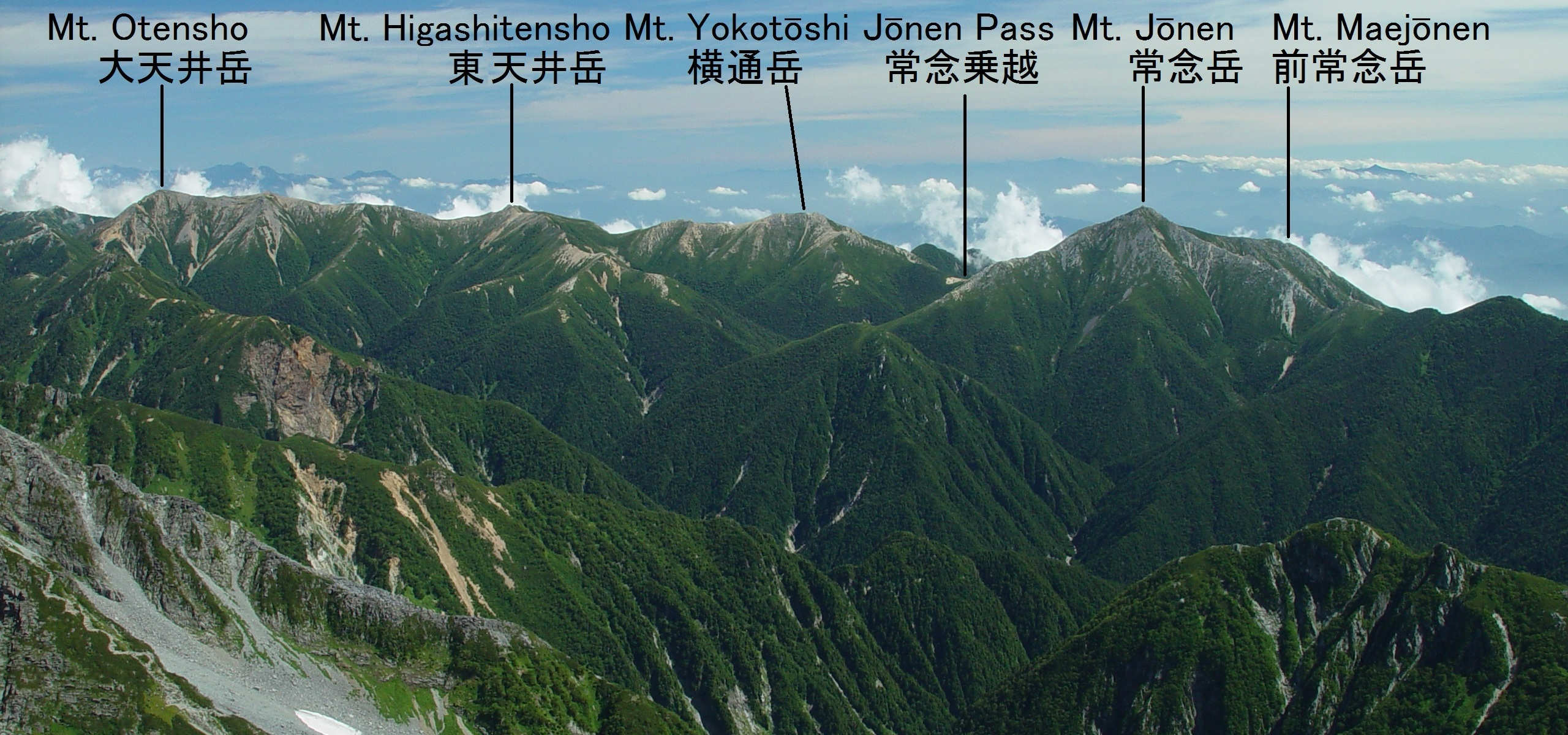 Jonen Mountains (Mount Otensho, Mount Higashitensho, Mount Yokotoshi, Jonen Pass, Mount Jonen and Mount Maejonen) seen from Mount Okuhotaka in Matsumoto, Nagano Preecture, Japan.